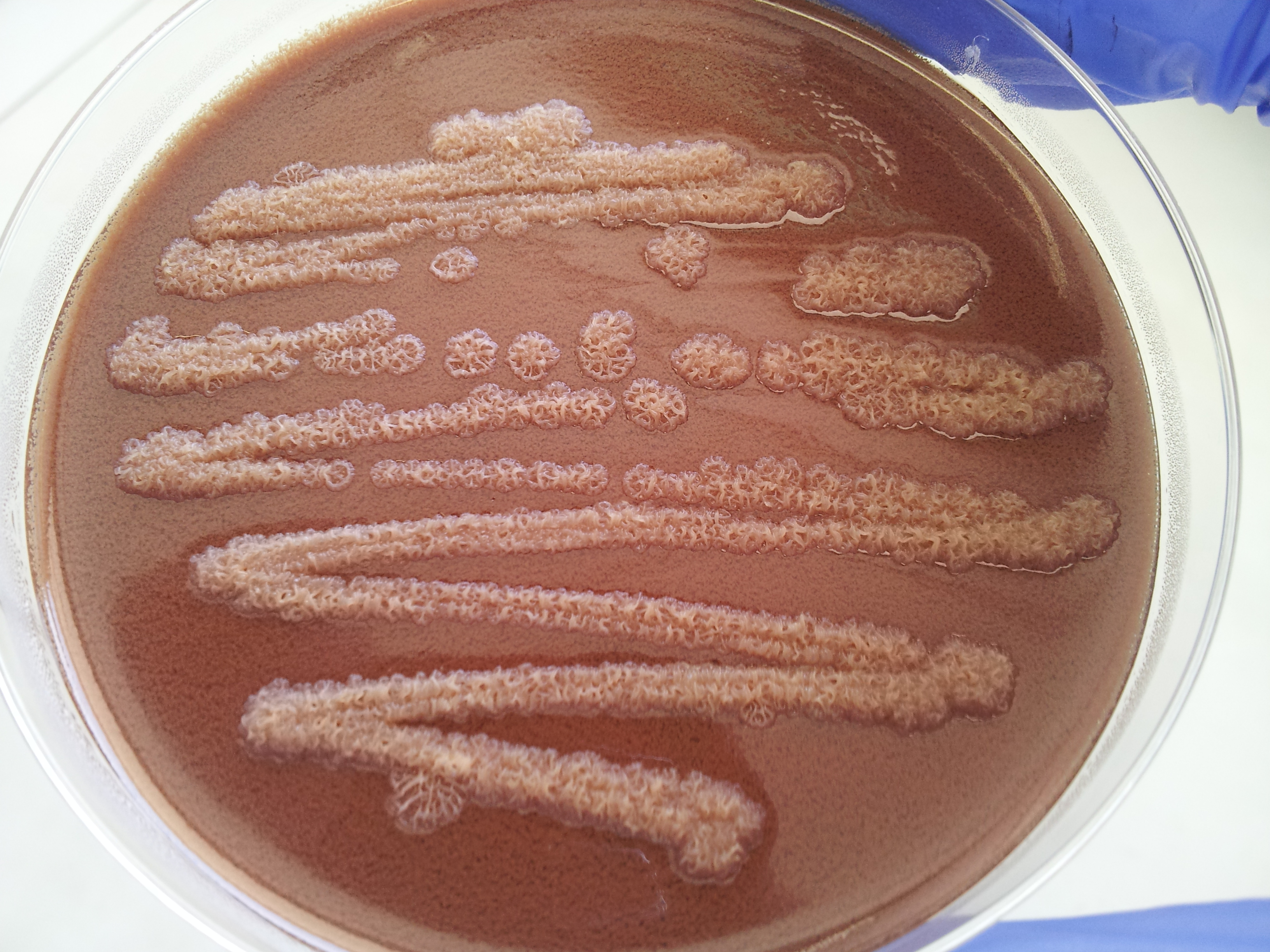 Pseudomonas stutzeri colonization on Chocolate agar after 48 hours. This bacterium was isolated from an eye.